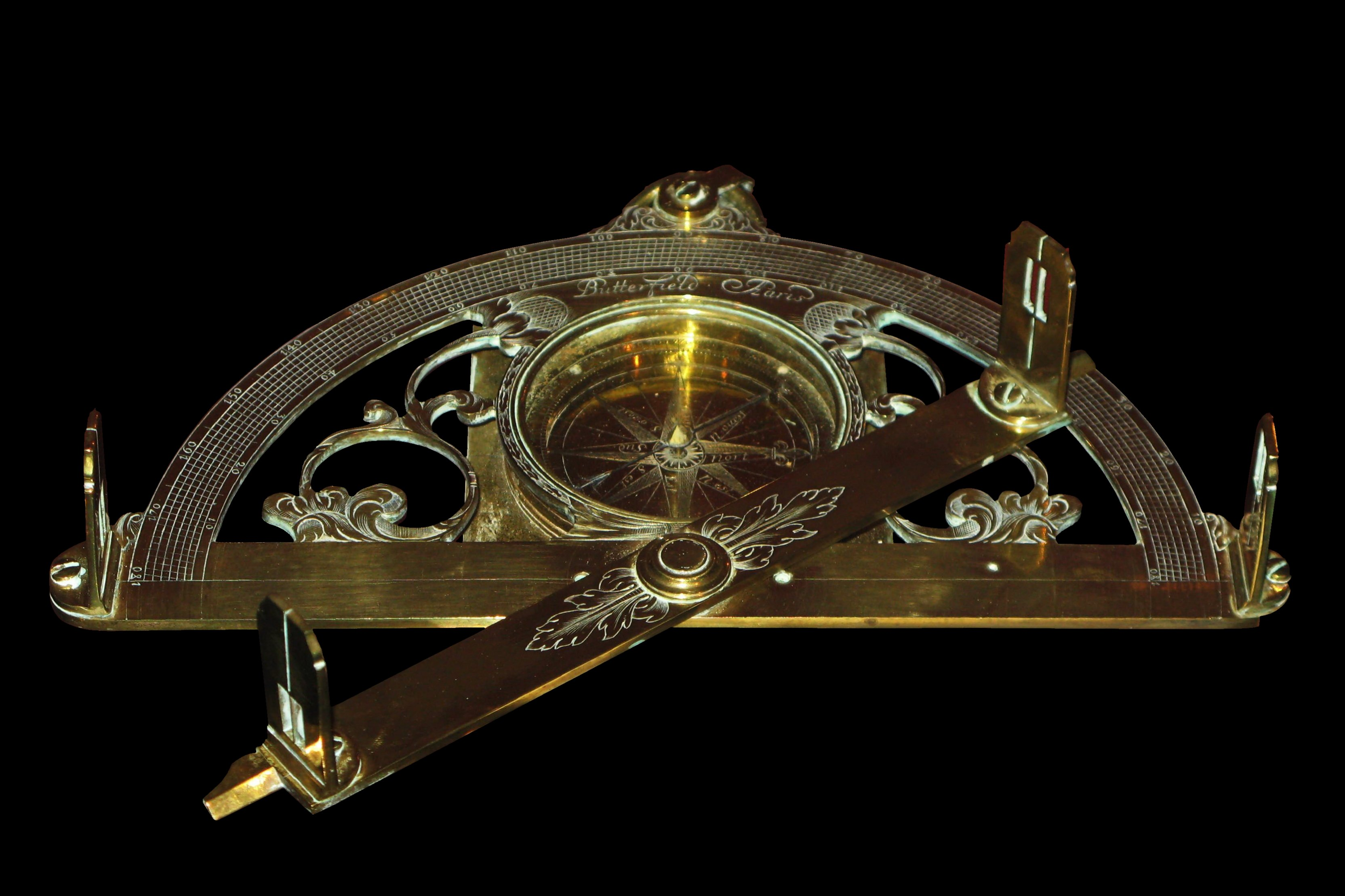 Butterfield Graphometer fitted with a compass, on display at Toulon Naval museum